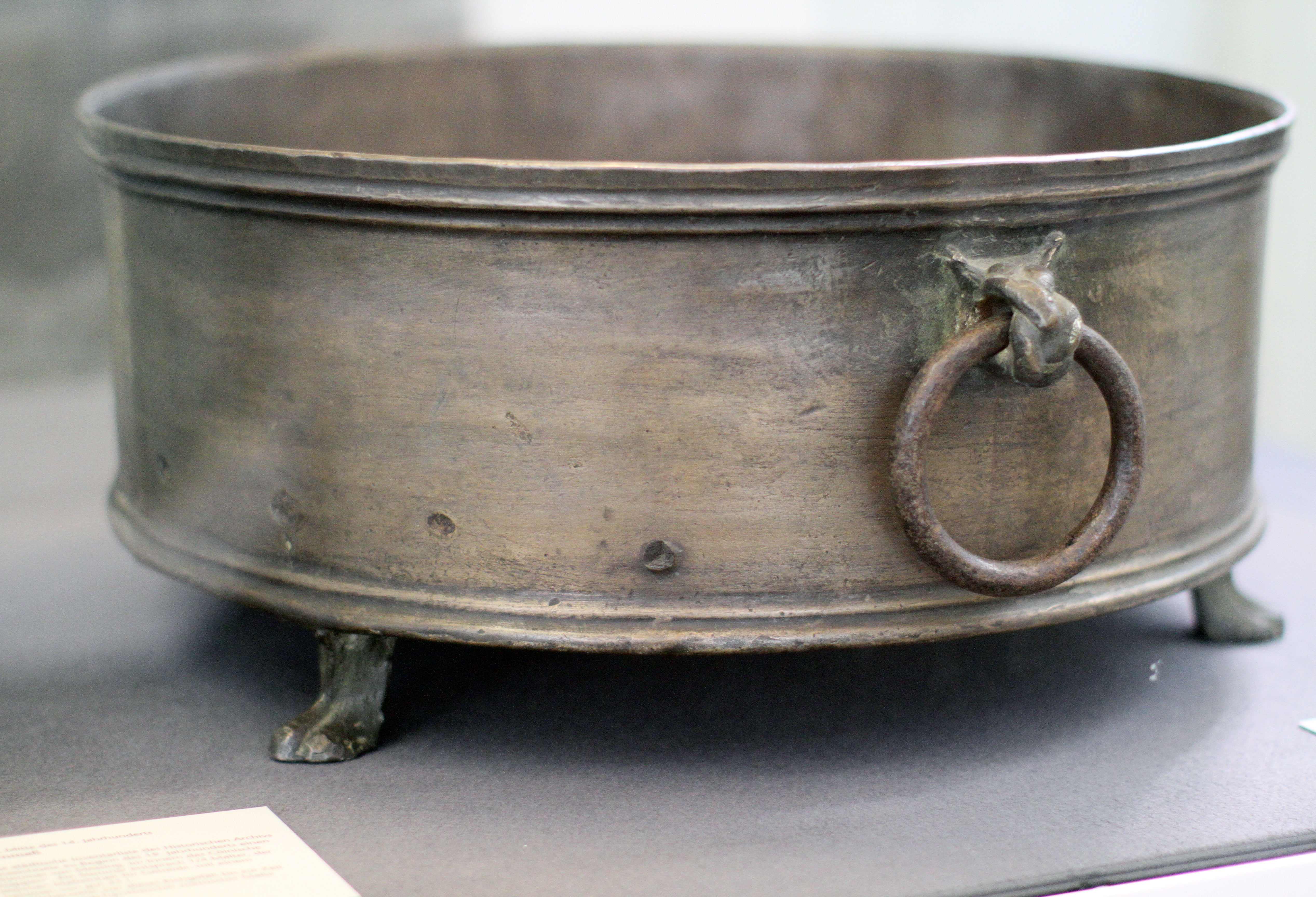 „Sümmer”, is a former measuring instrument in Germany. Permanent exhibition Kölnisches Stadtmuseum, in Cologne